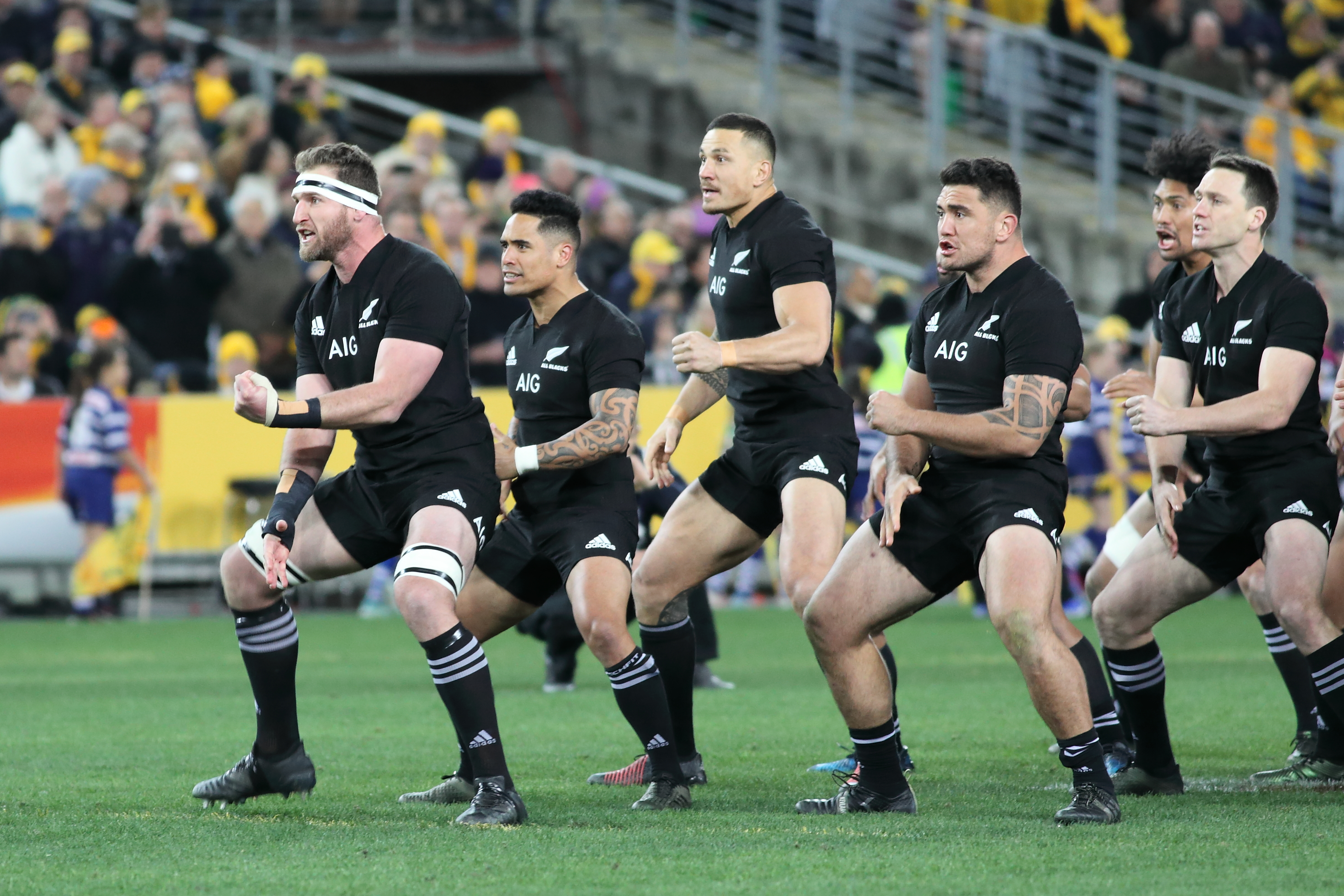 2017.08.19.20.07.26-Haka 2017 Rugby Championship, Bledisloe 1, Australia vs New Zealand, 19th August, ANZ Stadium, Sydney